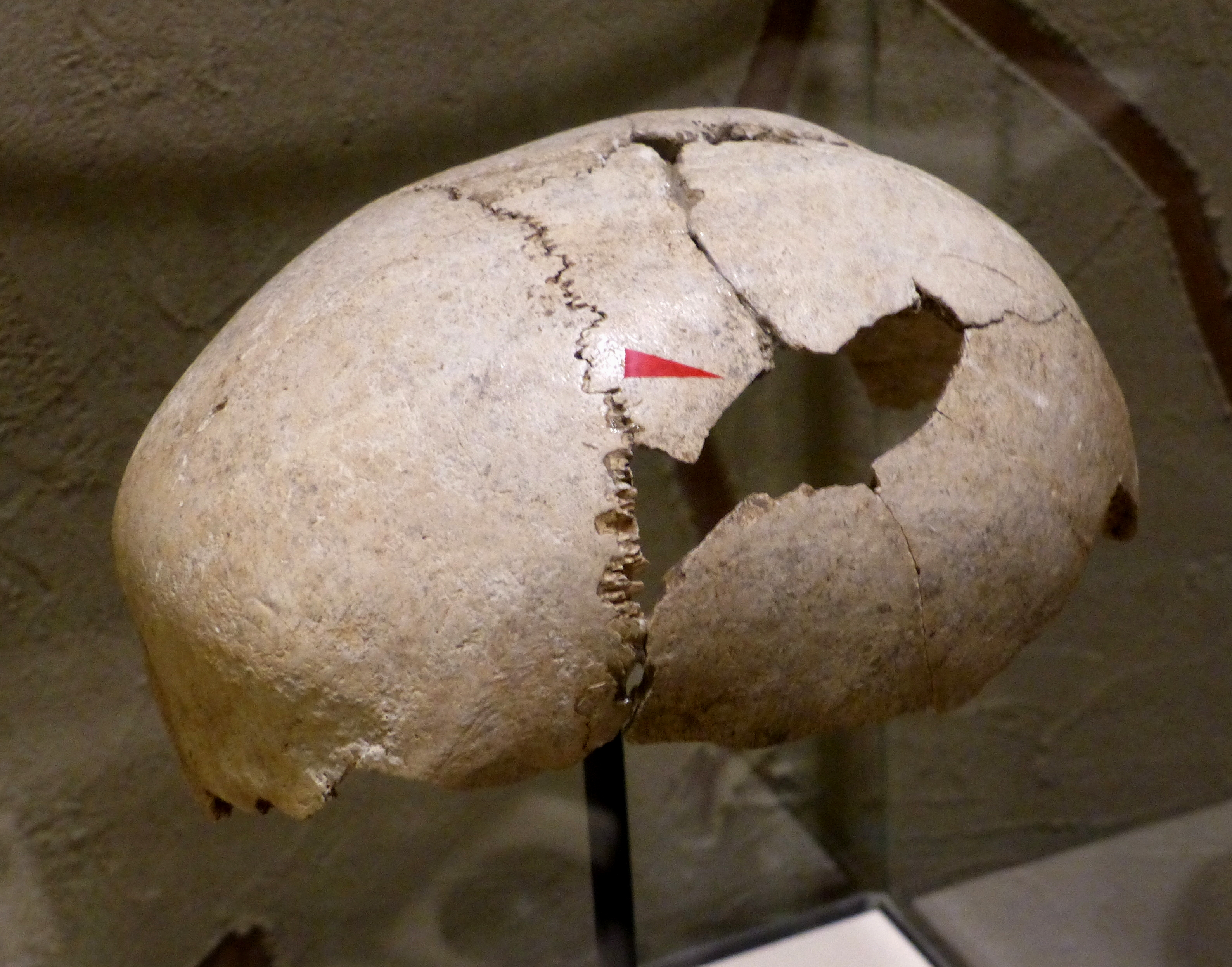 Asparn an der Zaya ( Lower Austria ). Museum of Early History: Broken skull ( 5000 BC ) of a woman in her 40s/50s - a victim of the neolithic massacre of Schletz ( Mistelbach district ).